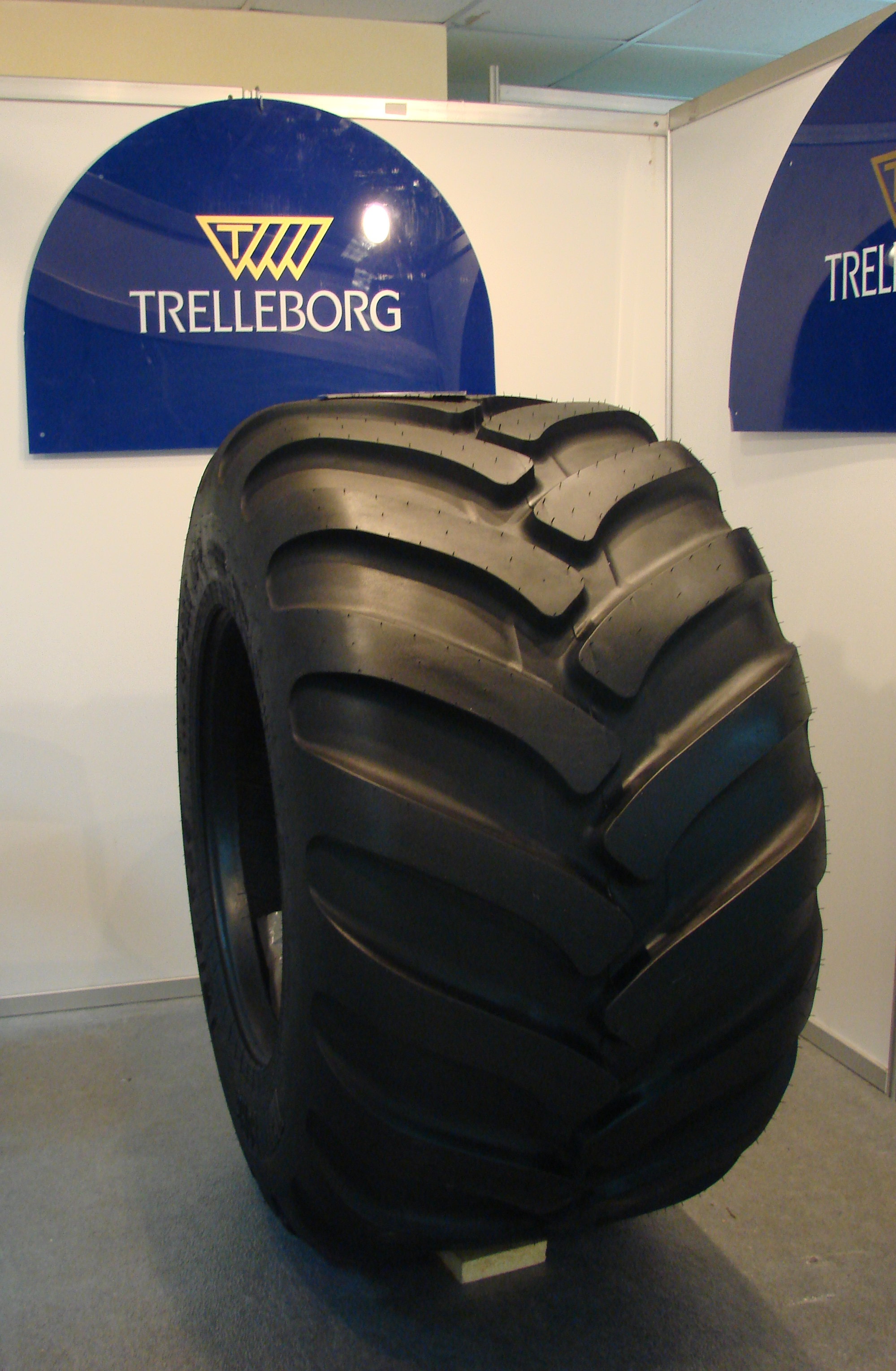 Russia, Vologda, Exhibition-Fair «Russian forest», Trelleborg AB tire